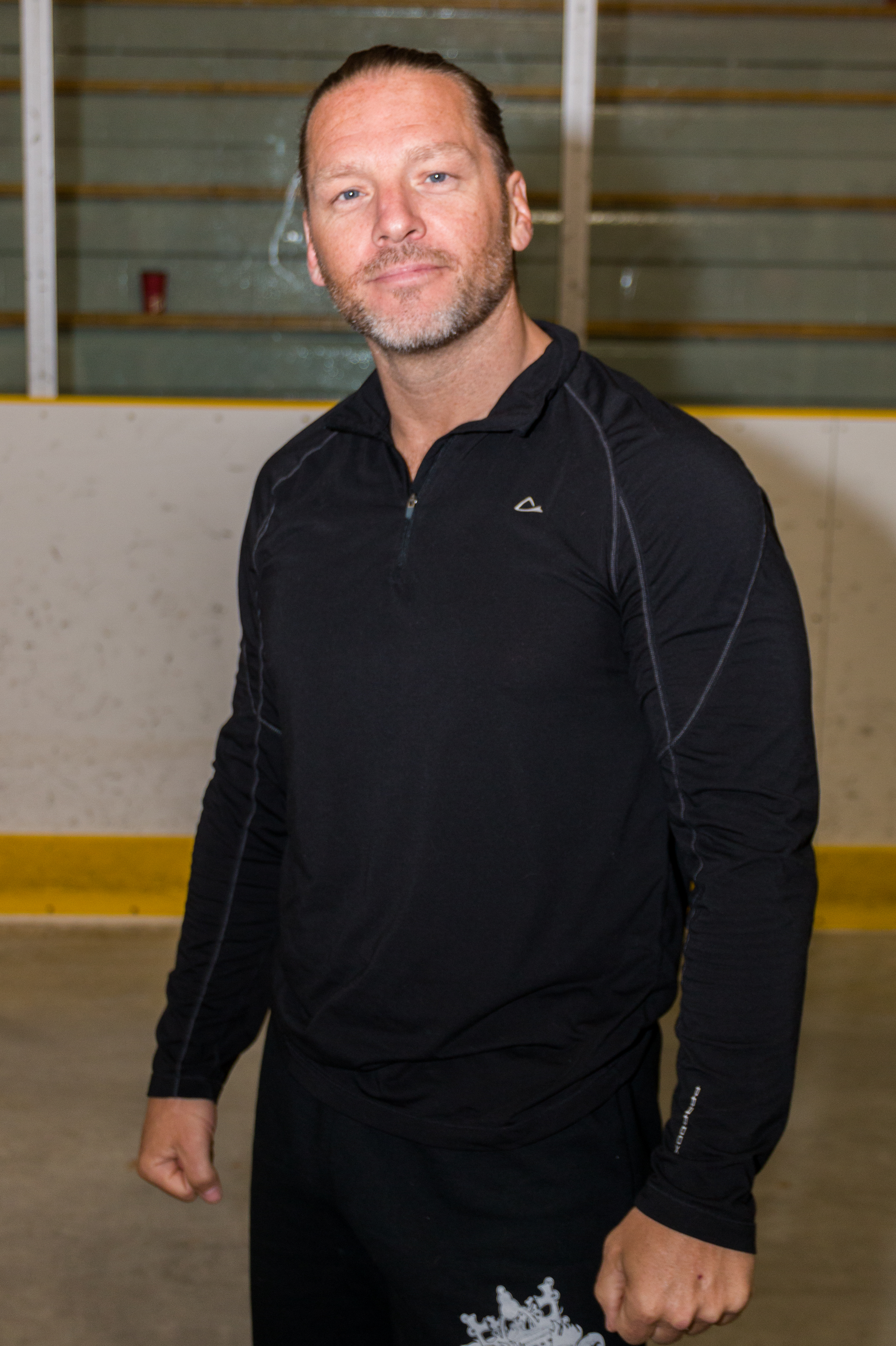 Johnny Devine at a Rock Solid Wrestling show in Port Perry, ON